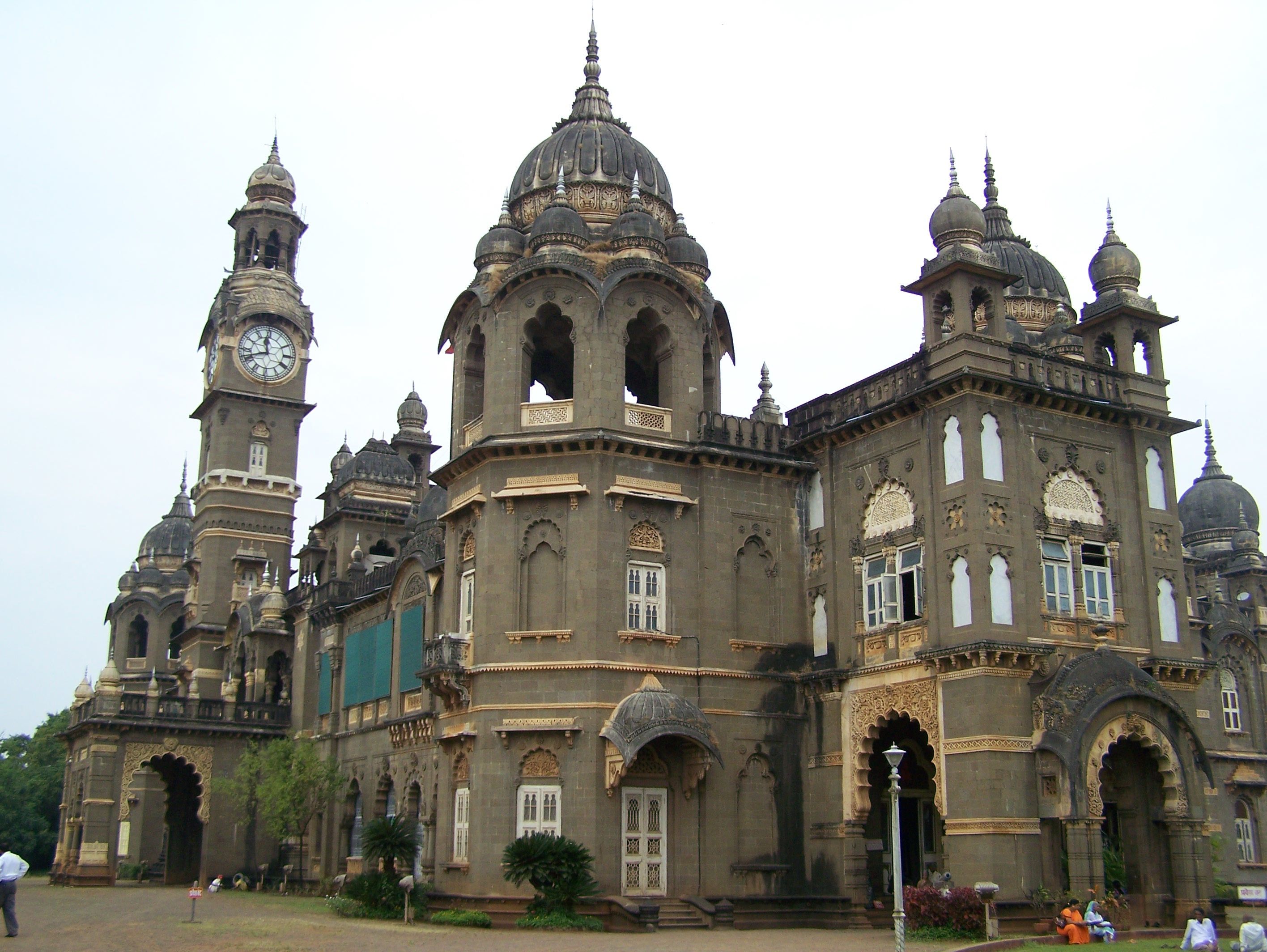 The Kolhapur New Palace. Home to the living descendants of Chatrapati Shahu Maharaj. The Ground Floor has been converted into a Museum. The Museum displays furniture, weapons, clothing used during the regime and by His Highness Shri Chhatrapati Shahu Maharaj himself. It also has photographs depicting his life right from his childhood to being a young hunter to a social reformer.